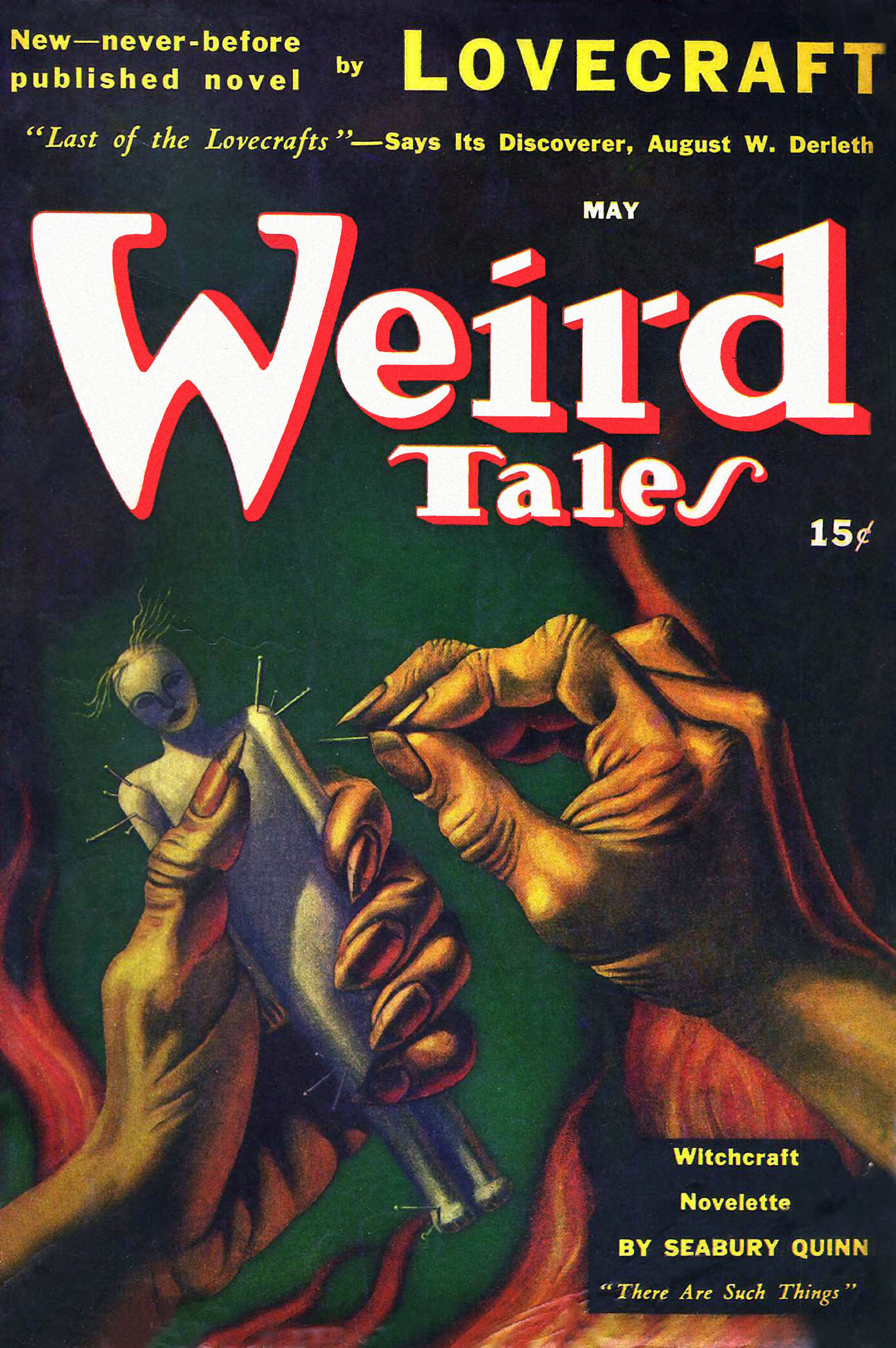 Cover of the pulp magazine Weird Tales (May 1941, vol. 35, no. 9) featuring There Are Such Things by Seabury Quinn. Cover art by Hannes Bok.